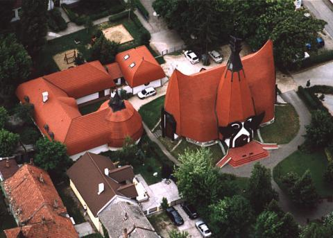 Lutheran church in Siófok